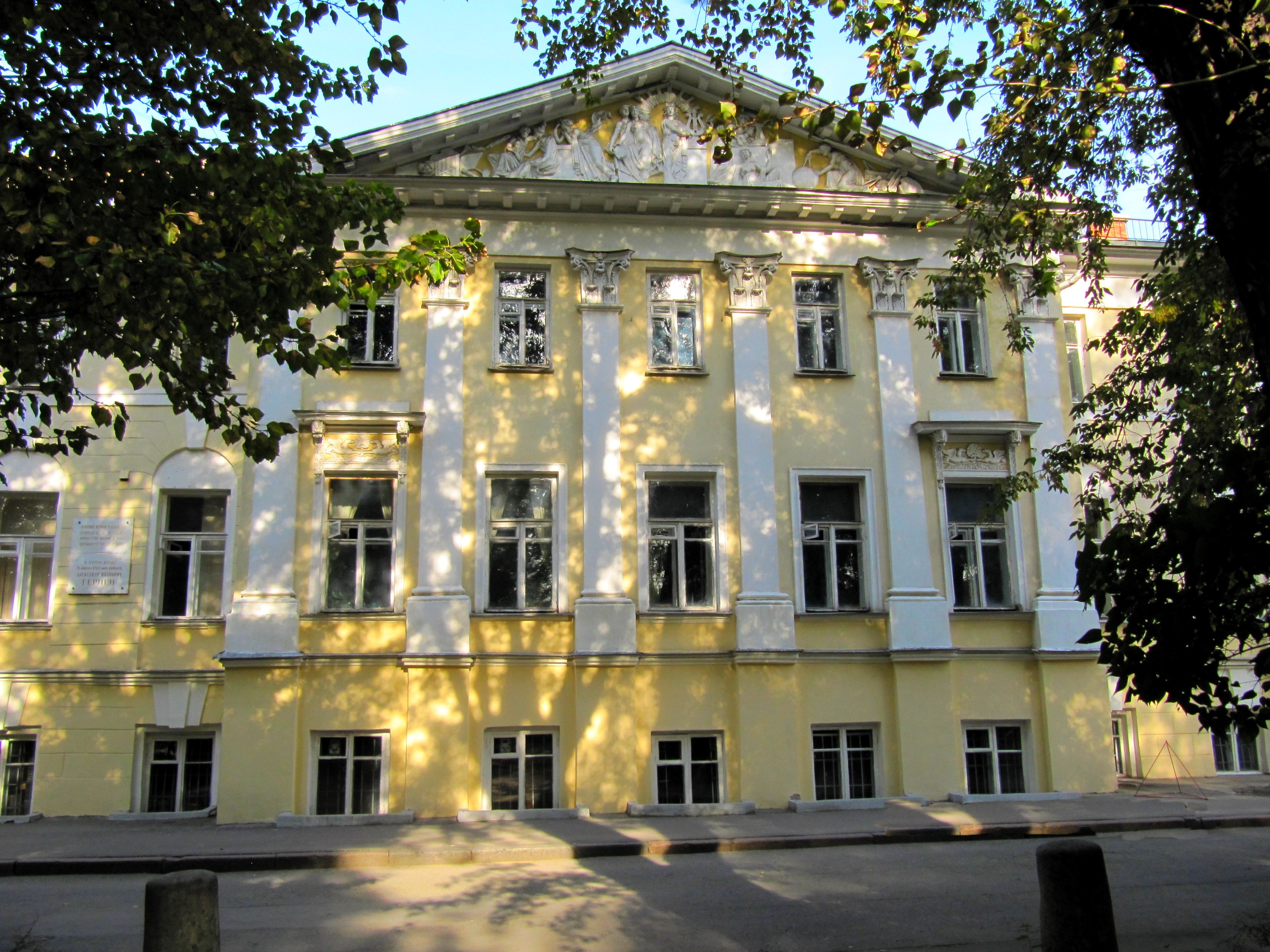 Alexander Herzen's Birthplace. Moscow, Tverskoy blvd, 25.Now Literature Institute named after Maxim Gorky